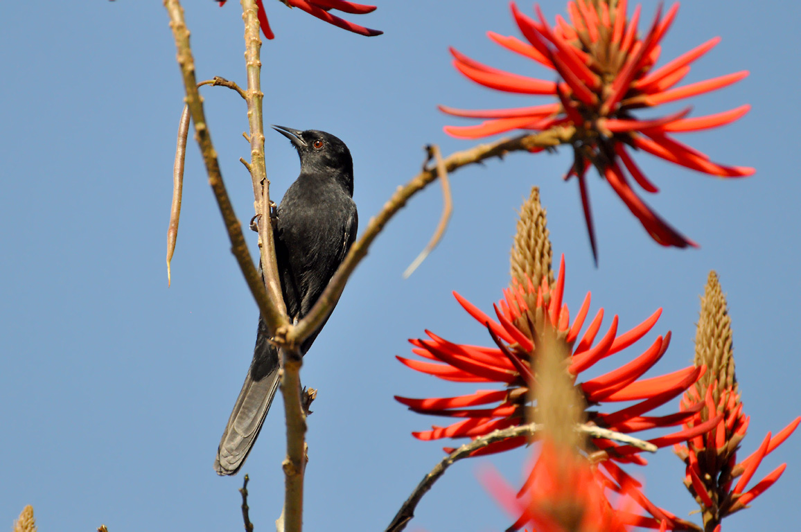 A Variable Oriole in Pelotas, Rio Grande do Sul, Brazil.